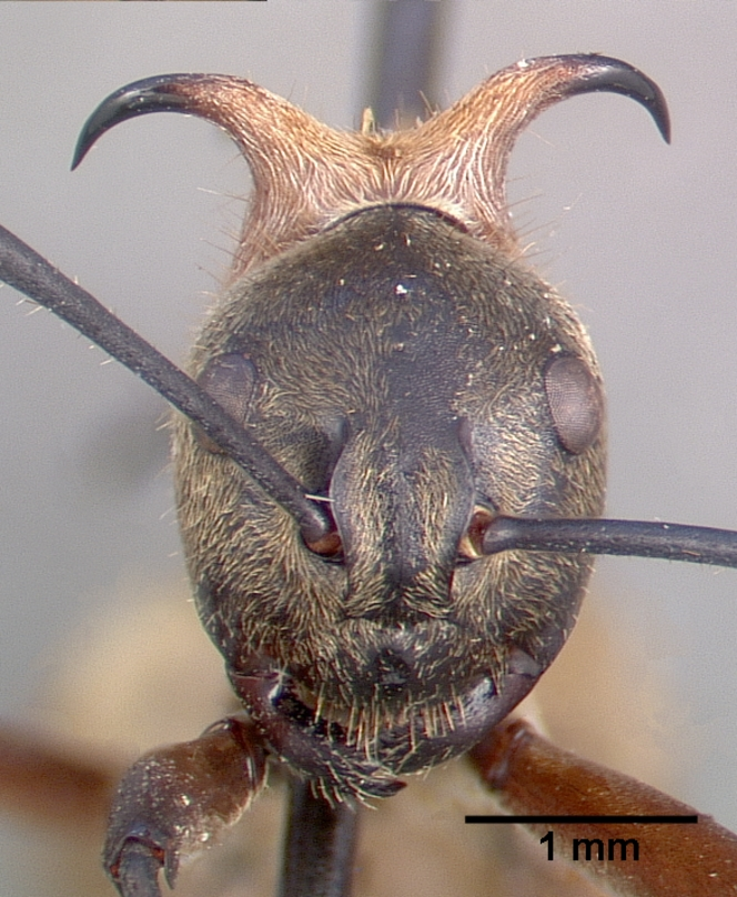 Head view of ant Polyrhachis bihamata specimen casent0010659.